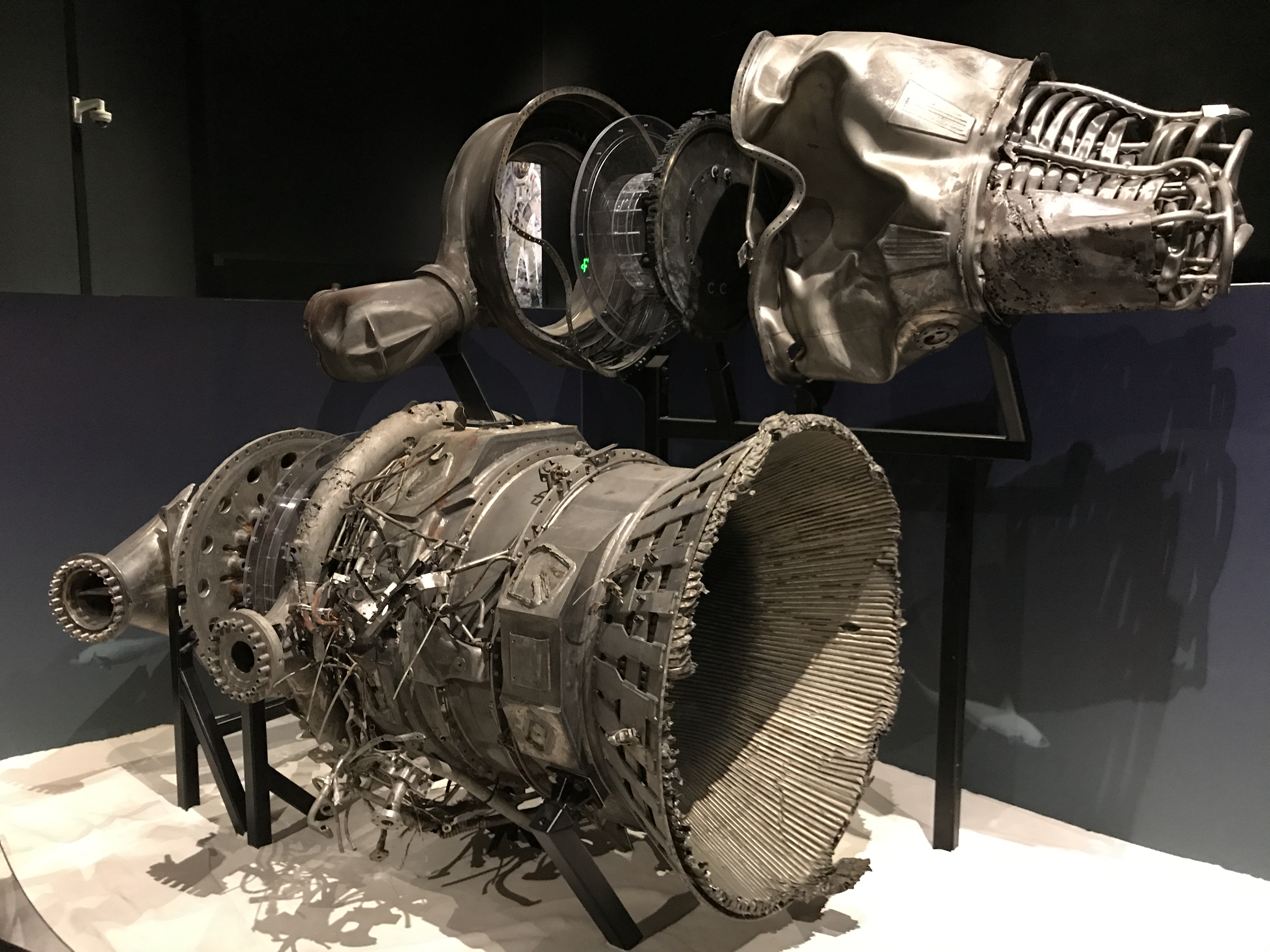 Recovered F-1 engine parts. Gas Generator and Heat Exchanger (top) from engine on Apollo 16 mission and Thrust Chamber (bottom) from #3 engine on Apollo 12.